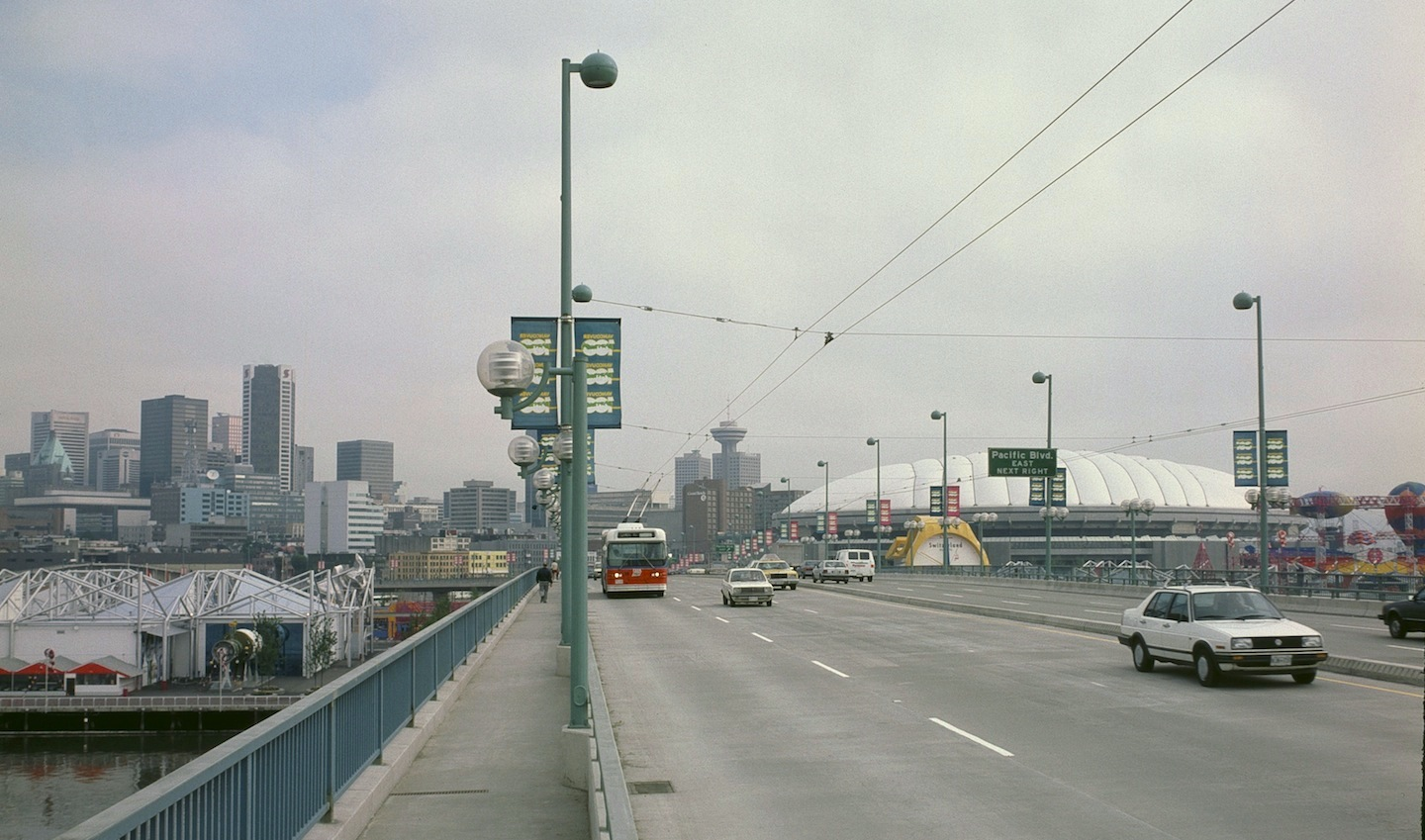 Looking north on the (current) Cambie Street Bridge, in Vancouver, when it was almost new, having replaced a 1911 bridge of the same name. (The bridge shown here opened in December 1985.) The BC Place Stadium is in the background. This photo was taken during Expo 86. A Flyer E800 trolley bus is approaching.